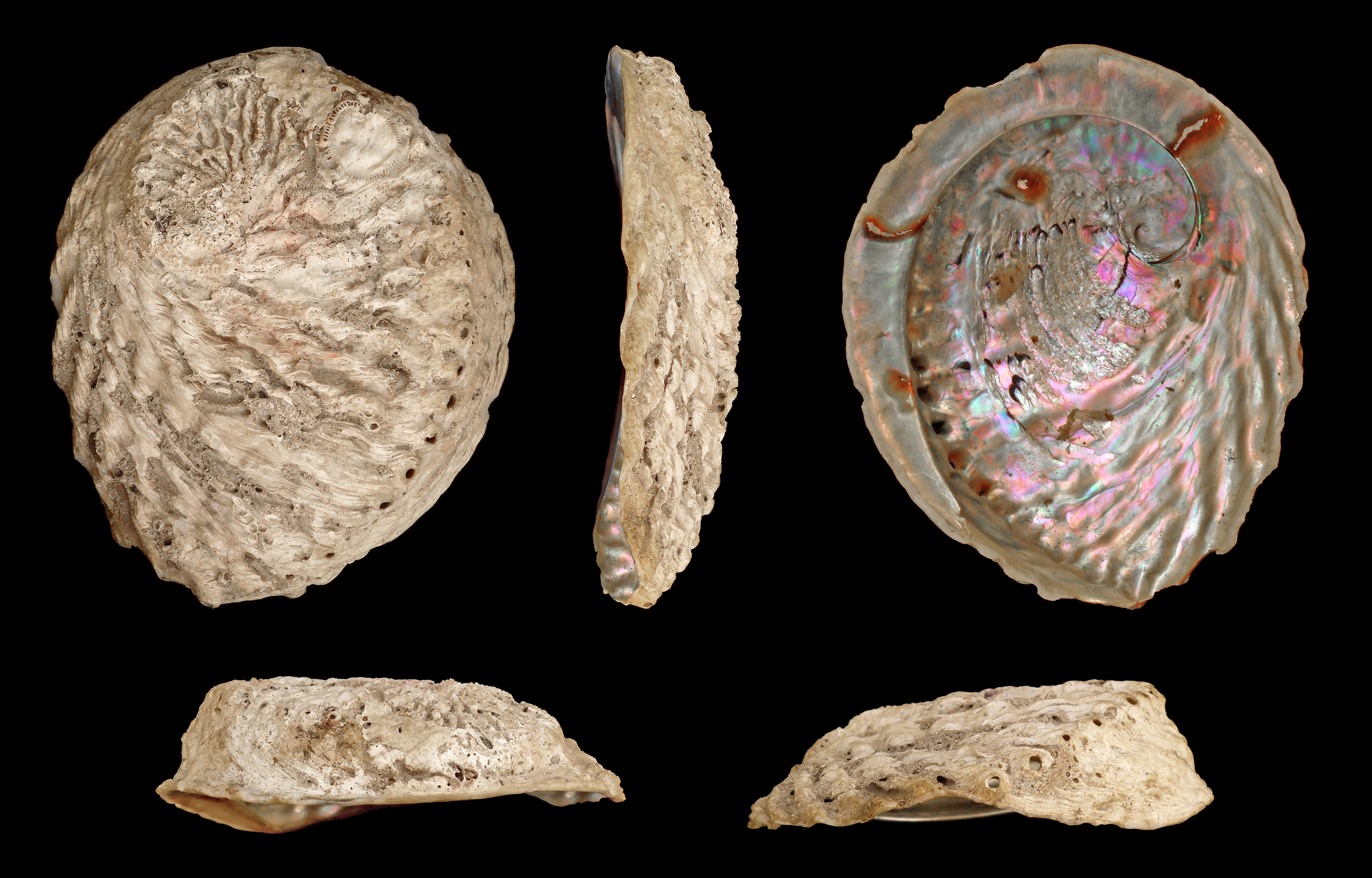 Midas Ear Abalone; Length 16 cm; Originating from South Africa; Shell of own collection, therefore not geocoded. Dorsal, lateral (right side), ventral, back, and front view. This picture consists of 5 single photos. The metadata refer to the dorsal view.